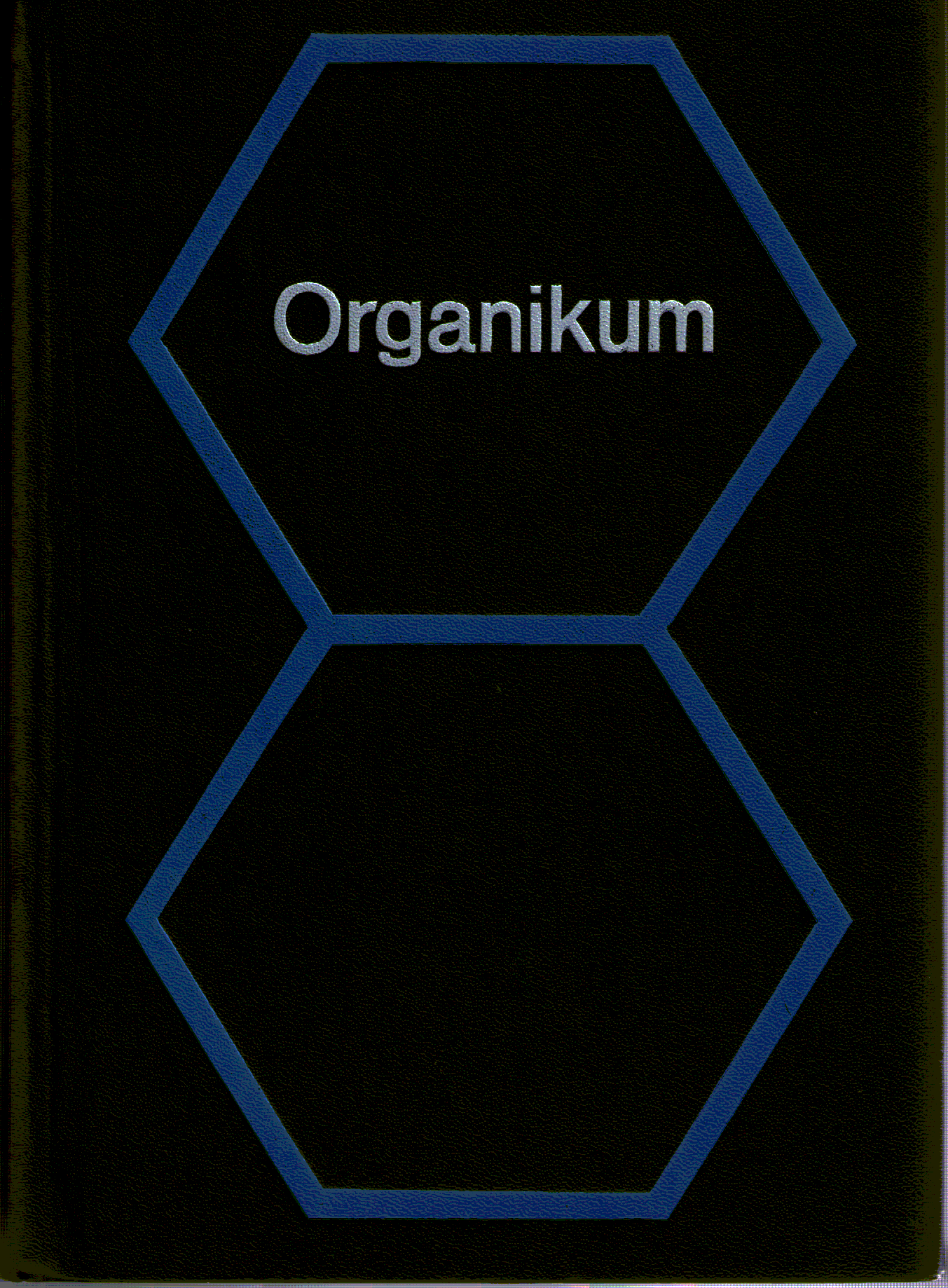 Organikum (Title), 16th edition